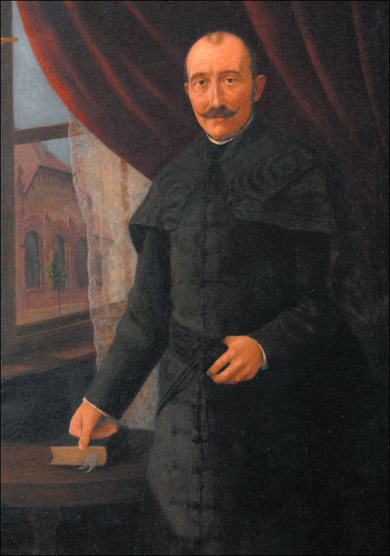 Zoltán Futó, pastor of Szentes 1898-1921